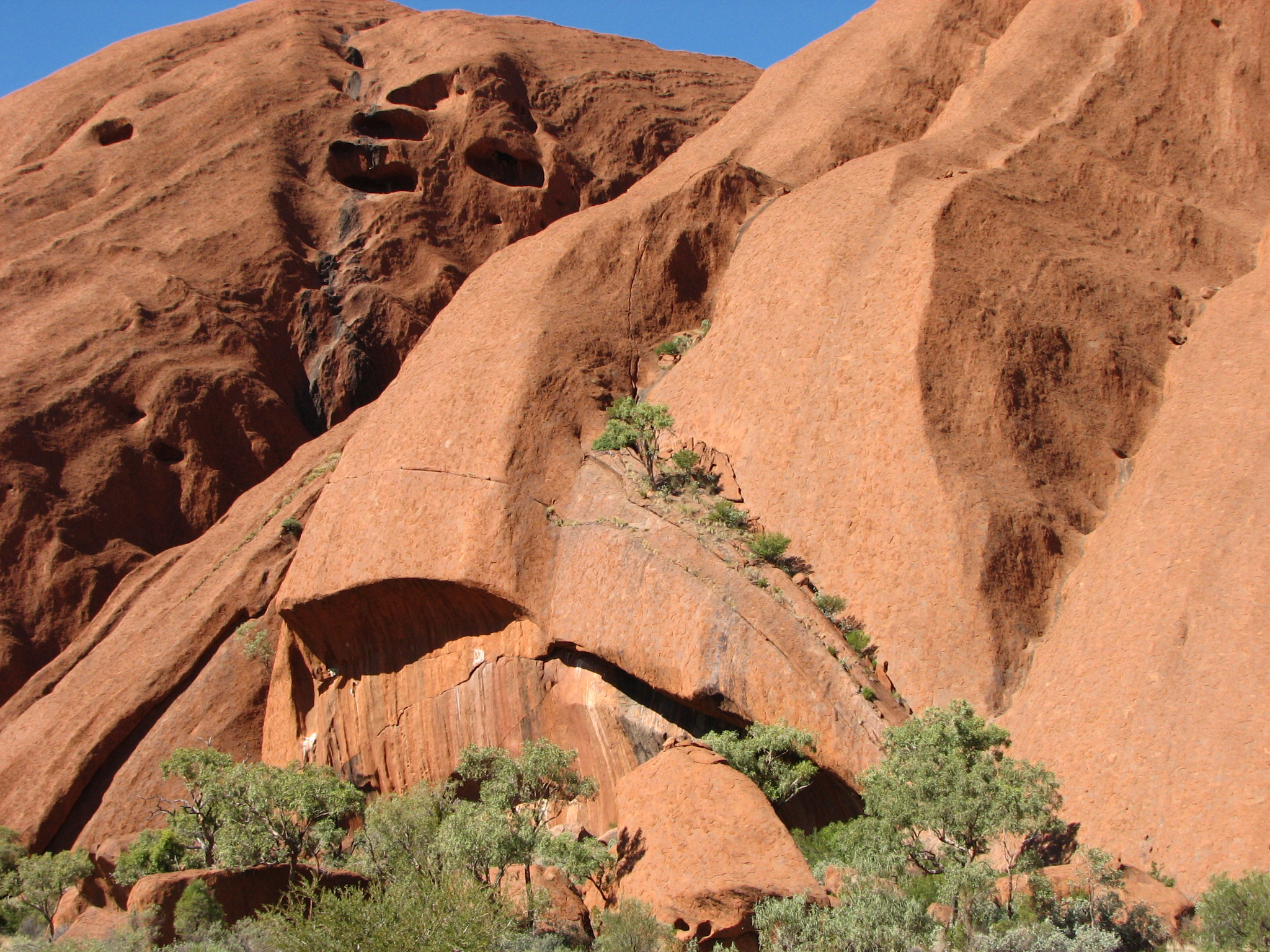 Uluru, Central Australia. Shows trees growing in a crack up the rock face.